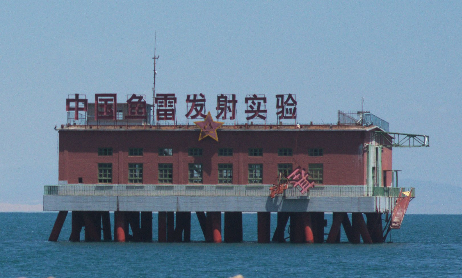 Site where was launched the torpedo of the first chinese nuclear bomb test (中国鱼雷发射实验) in 1958, at South-East of Qinghai Lake. The Yuanzi cheng museum, near the lake, allow to see history of this event.